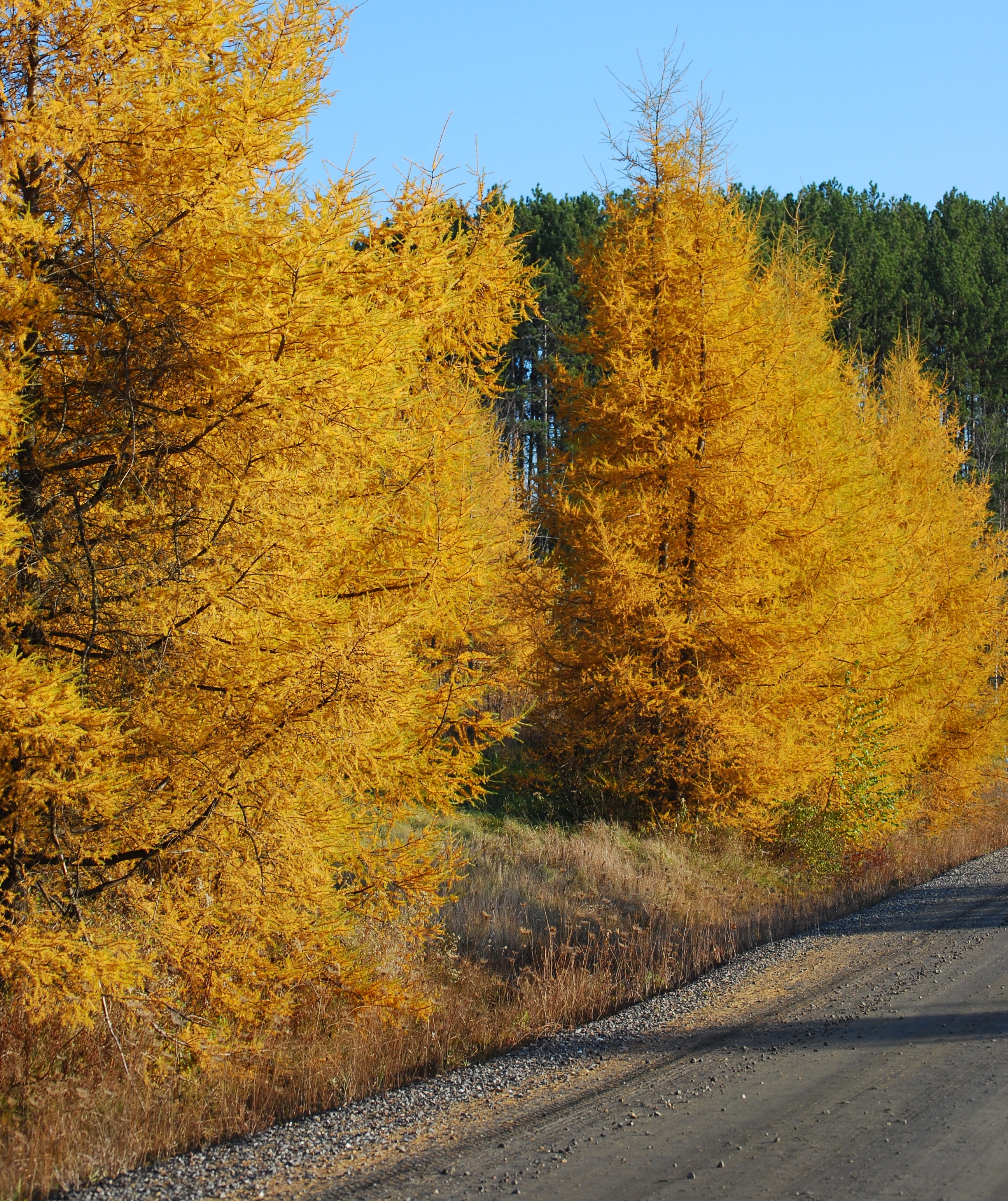 A stand of tamarack trees. Taken in Barre town, Vermont, USA.